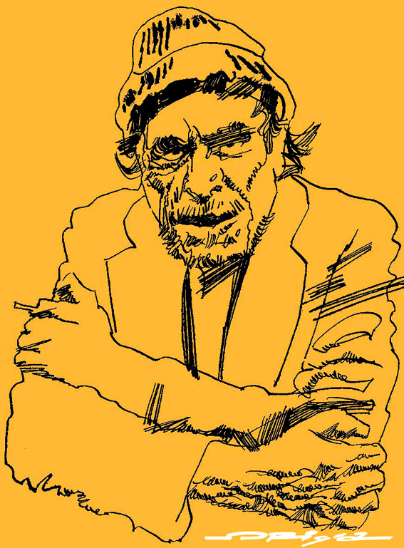 Charles Bukowski, portrait by italian artist Graziano Origa, pen&ink+pantone, 2008